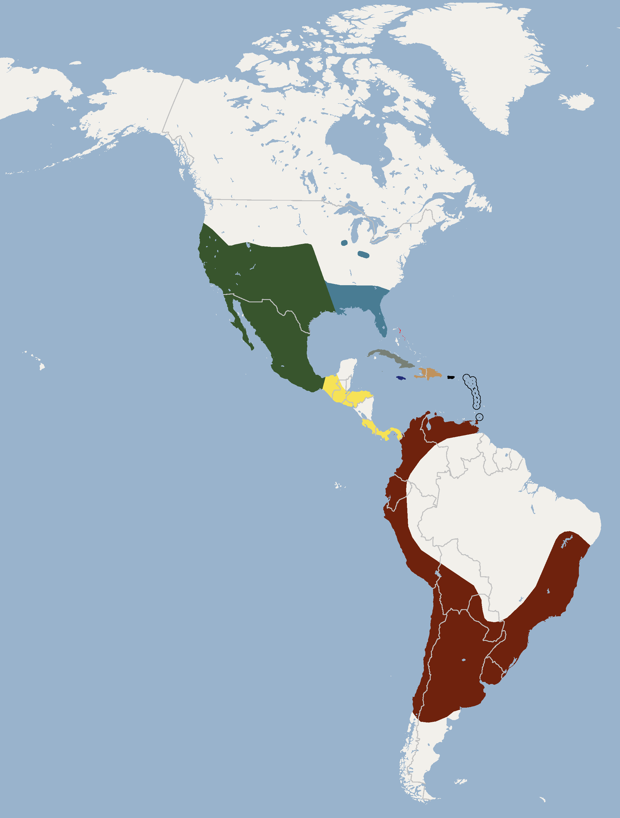 Geographical distribution of Tadarida brasiliensis according to IUCNRedlist, Gardner 2008, Reid 2009 Kays & Wilson 2009 T.b.brasiliensis T.b.antillularum T.b.bahamensis T.b.constanzae t.b.cynocephala T.b.intermedia T.b.mexicana T.b.murina T.b.muscula